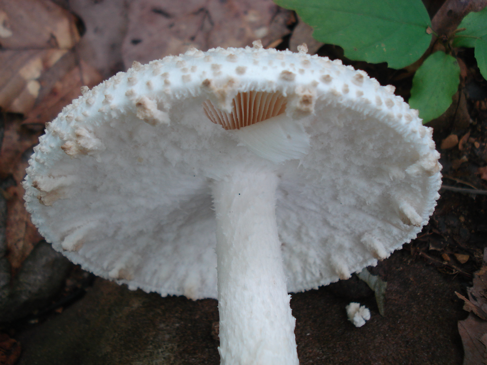 View of the partial veil covering the gills of a young fruit body of the fungus Amanita atkinsoniana. Specimen photographed in Laurel Highlands, Pennsylvania, USA.